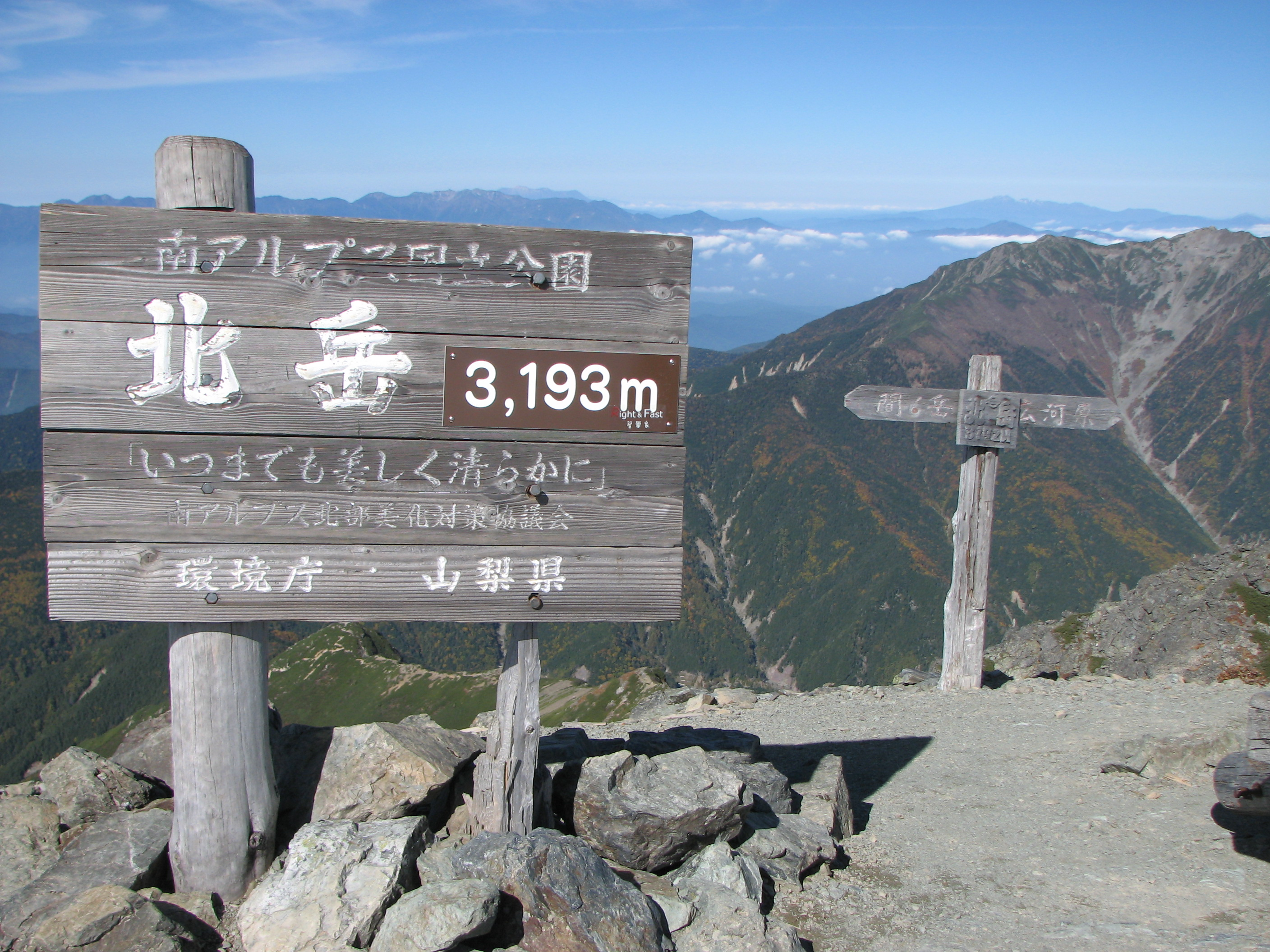 Two signboards on the summit of Mount Kita. The front board displays the height of Mount Kita as 3,193 m, whilst the board on the back says it's 3,192 m